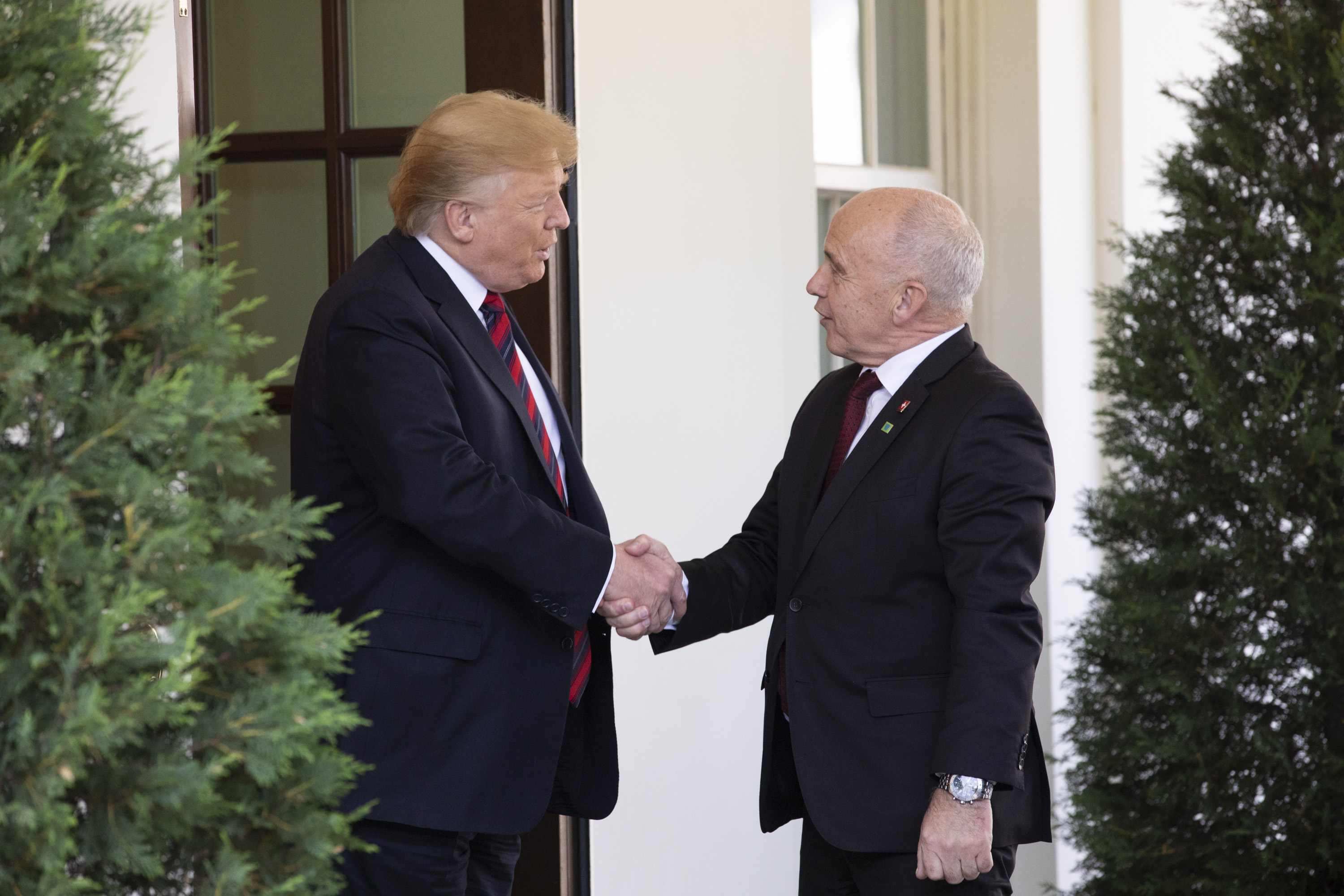 President Donald J. Trump welcomes President Ueli Maurer of the Swiss Confederation Thursday, May 16, 2019, to the West Wing Lobby entrance of the White House. (Official White House Photo by Joyce N. Boghosian)